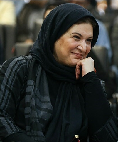 Rima Raminfar. Gallery link.